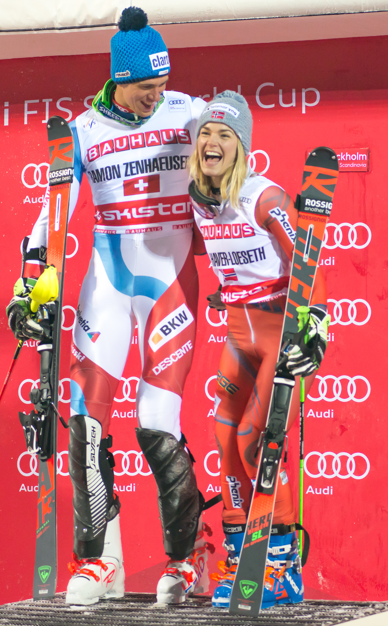 The winners Ramon Zenhaeusern and Nina Haver-Loeseth. Photo by Roland Osbeck